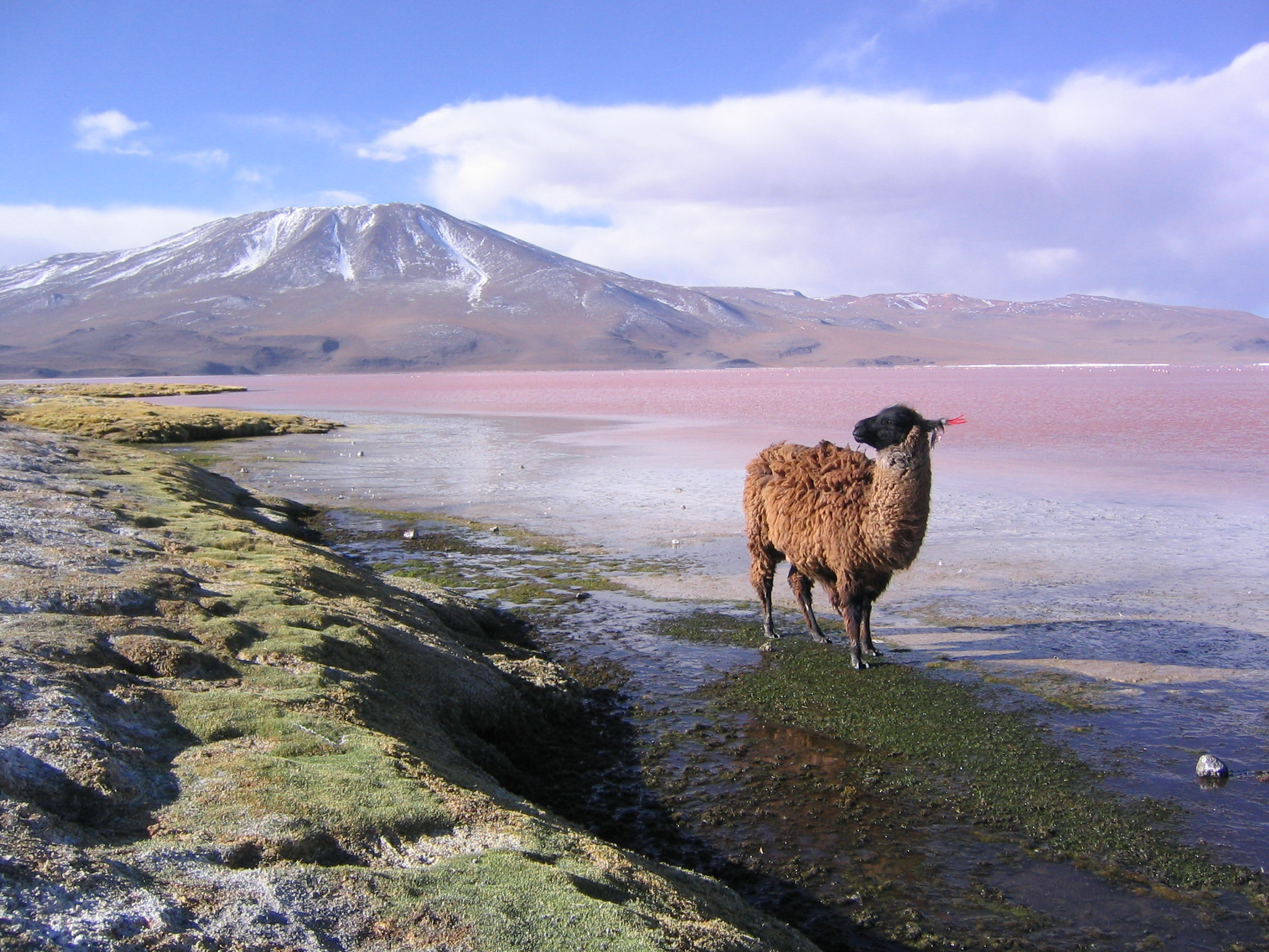 Laguna Colorada, Punta Grande in the background